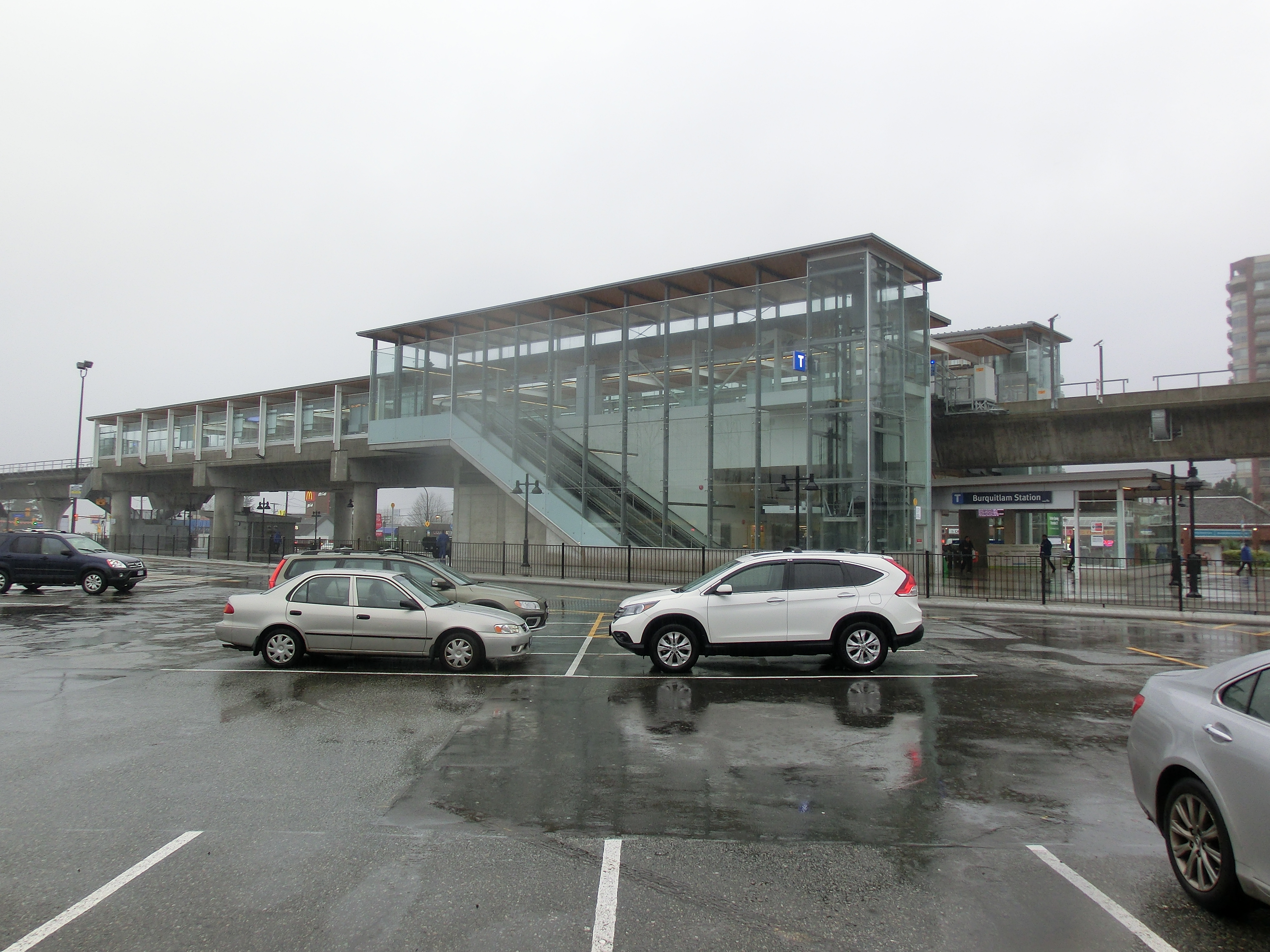 Burquitlam SkyTrain station